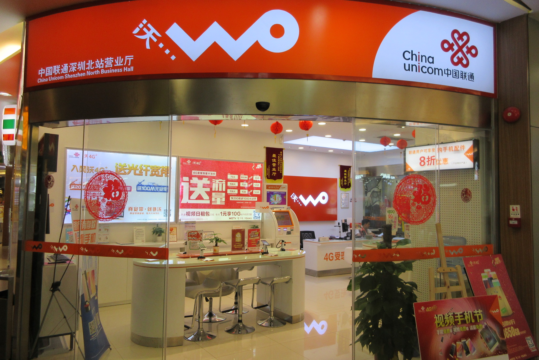 SZ 深圳北站 Shenzhen North Station 東廣場 East Square 繽果空間購物中心 Bingo Space Shopping Center shop sign in Feb 2017